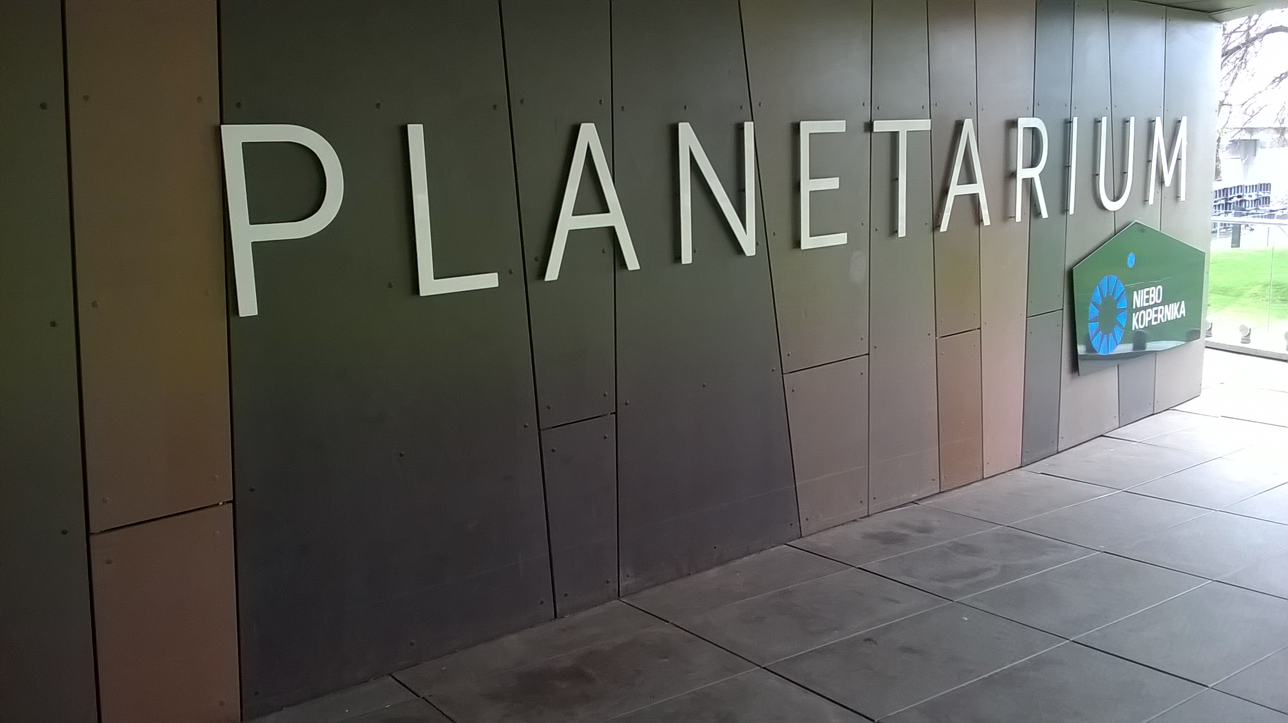 Planetarium "Niebo Kopernika" ("The Heavens of Copernicus") in Warsaw.